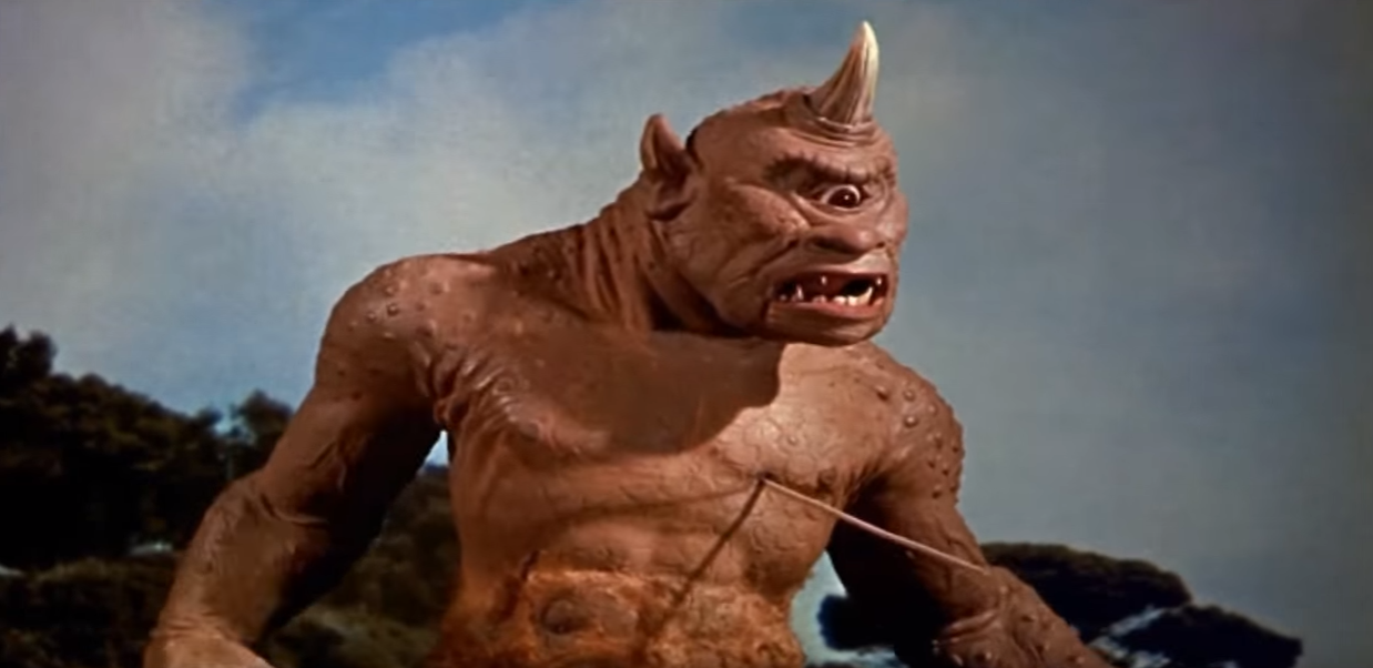 Cyclops, The 7th Voyage of Sinbad.